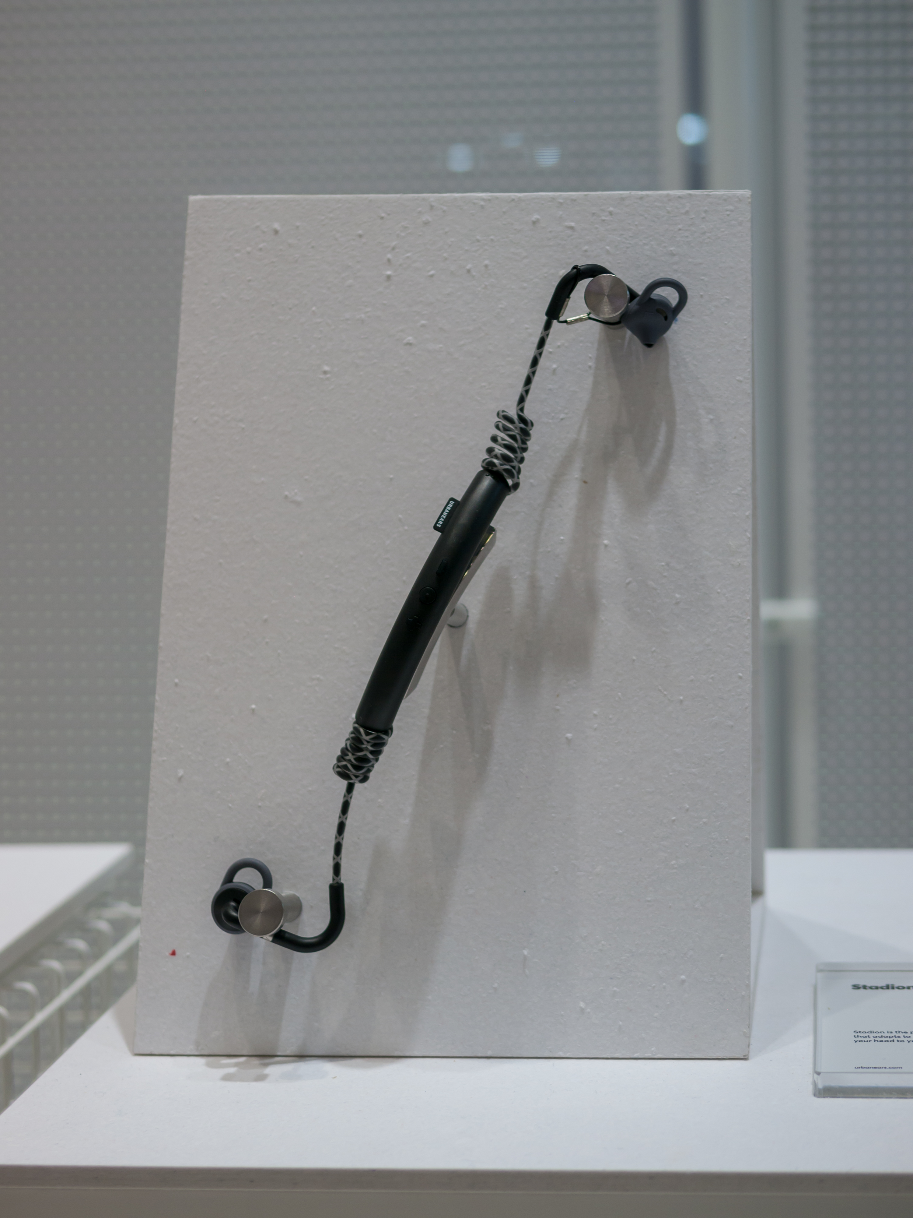 Urban Ears, Internationale Funkausstellung 2018, Berlin